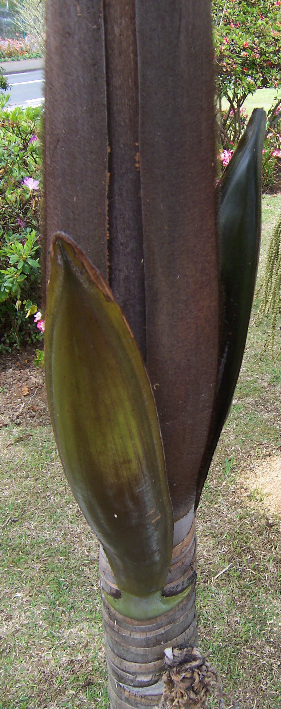 young barbel palm (Acanthophoenix rubra) : flowers sheath (Plaine-des-Palmistes, Réunion island)